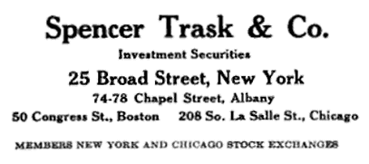 The logo of the historical company Spencer Trask & Co.